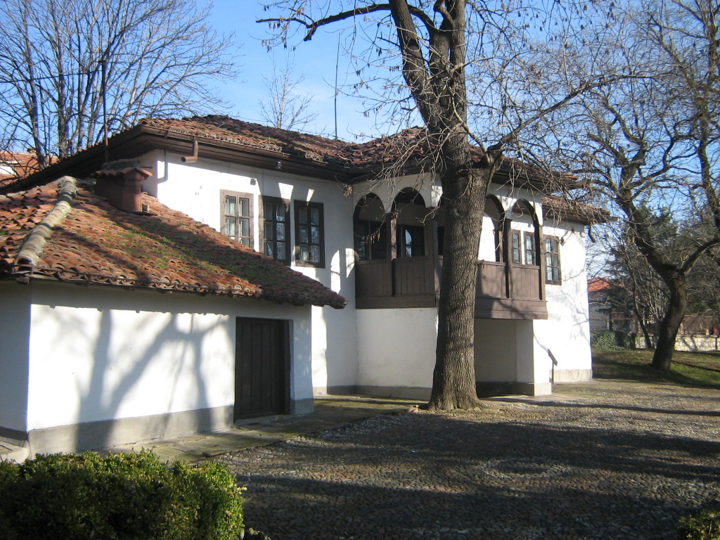 Museum house “His Royal Majesty Karol I” in the town of Pordim, Bulgaria